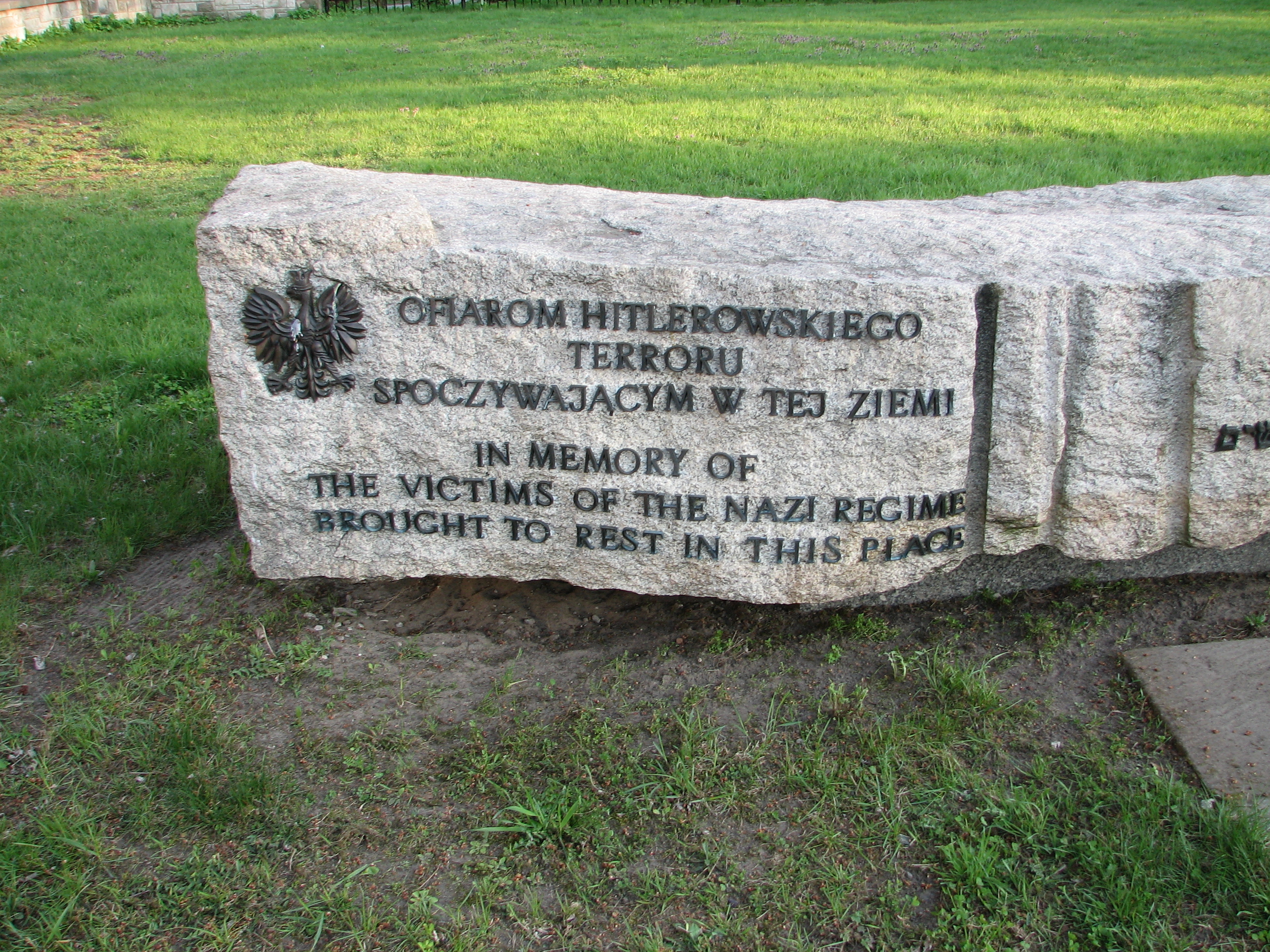 Monument of Jews and Poles Common Martyrdom in Warsaw, Gibalskiego street 21